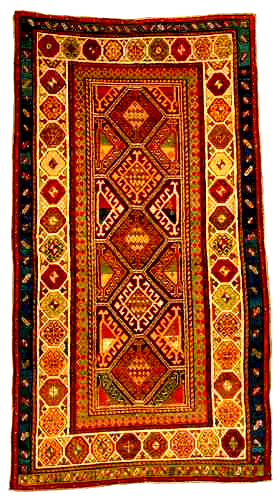 Long rug from Ganja, Azerbaijan, 19 century.